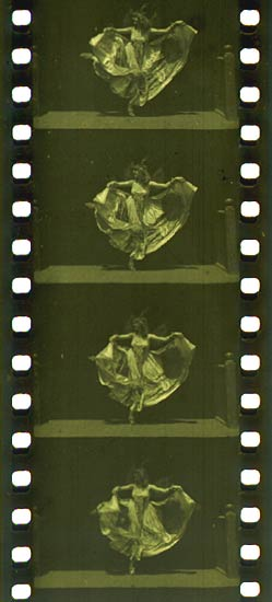 Filmstrip of Butterfly Dance (ca. 1895), an early Kinetoscope film produced by Thomas Edison, featuring Annabelle Whitford